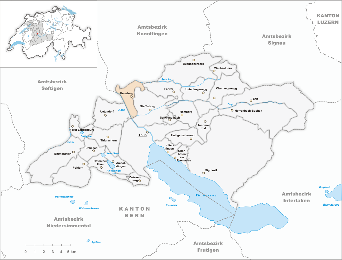 Municipality Heimberg